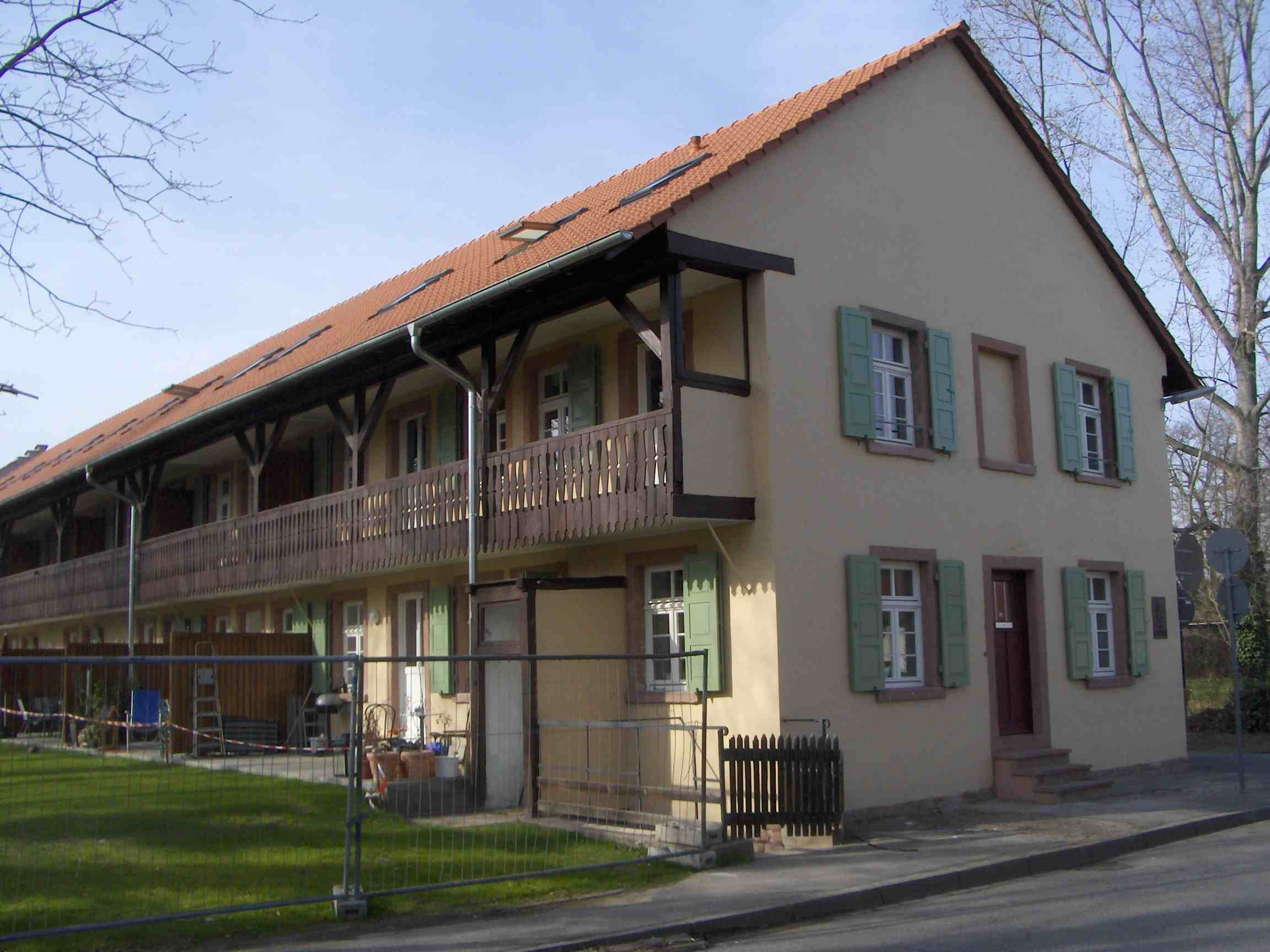 Early working-class housing estate in Mannheim (Germany)